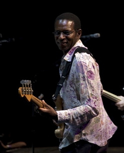 Willie Weeks performing at the 2007 Crossroads Guitar Festival, cropped version